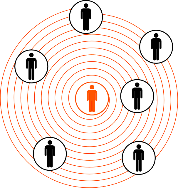 Egocentrism